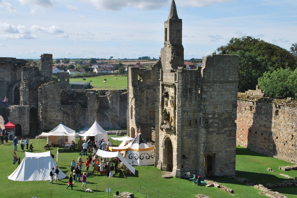 Warkworth Castle bailey, seen from the north. The gatehouse is on the left and the Lion and Little Stair towers are on the right.